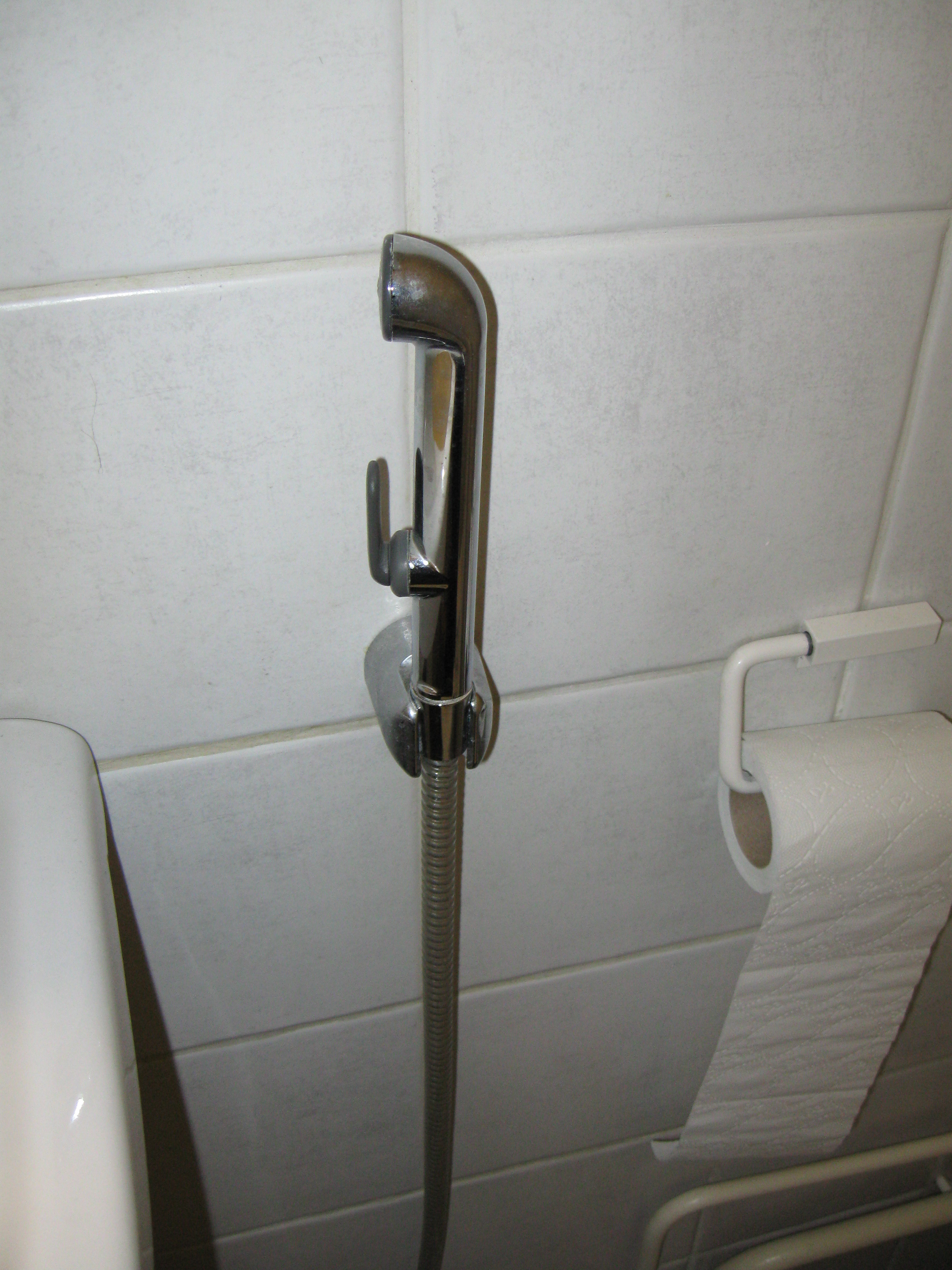 The so called bidé shower for personal hygiene, mainly available in Nordic countries only.